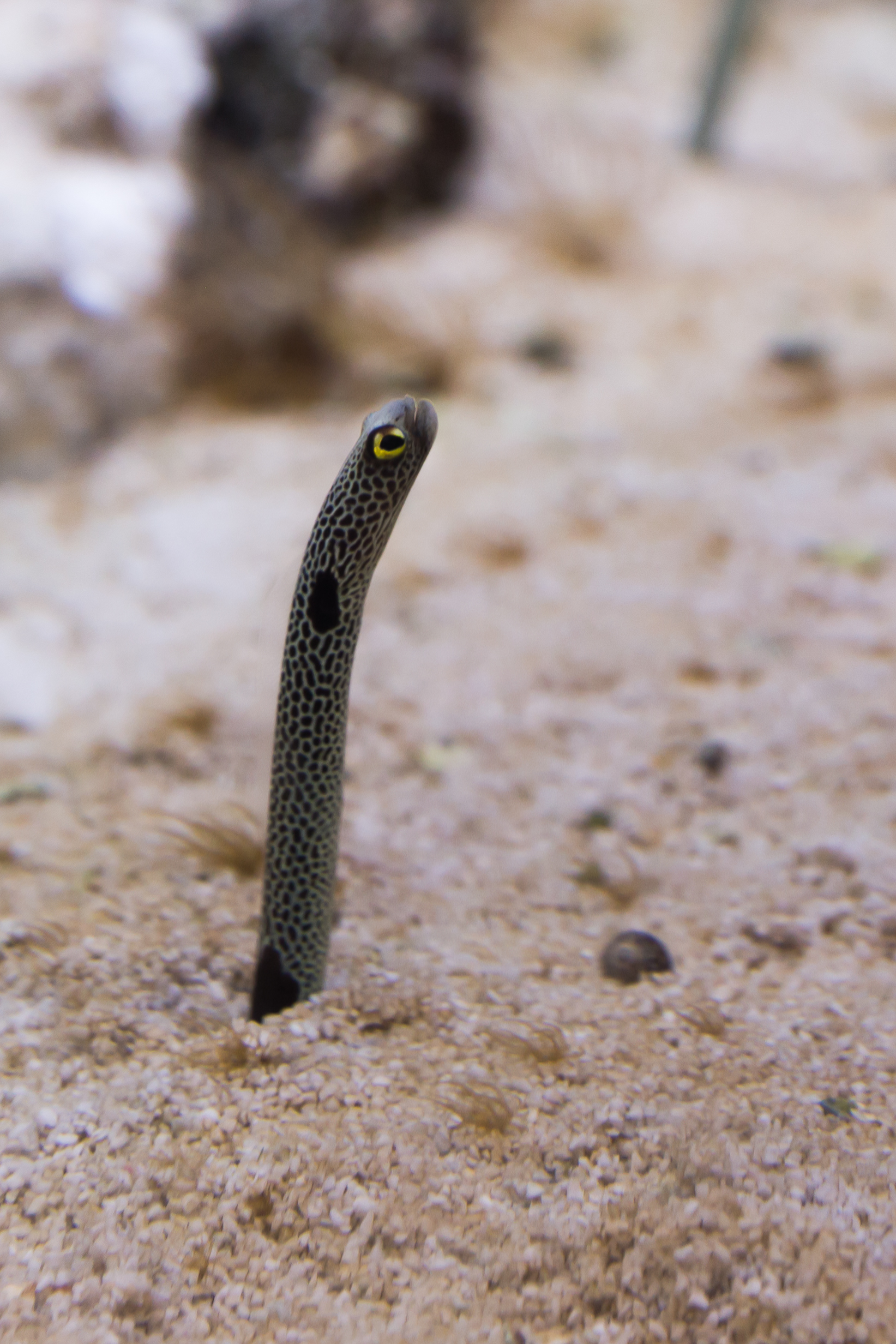 Heteroconger hassi (Spotted garden eel) in the ZooParc de Beauval in Saint-Aignan-sur-Cher, France.